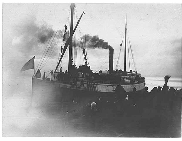 Handwritten on verso: Robert Dollar off for Cape Nome, nearly dark when taken . Peiser 10047 Subjects (LCTGM): Crowds--Washington (State)--Seattle; Waterfronts--Washington (State)--Seattle